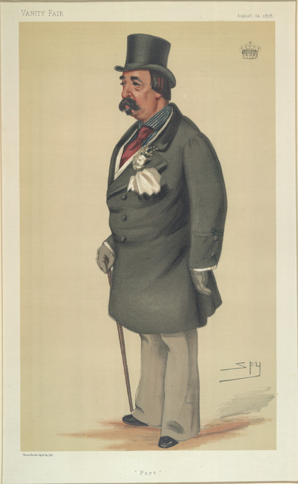 Statesmen No.279: Caricature of The Earl of Portarlington. Caption reads: "Port"